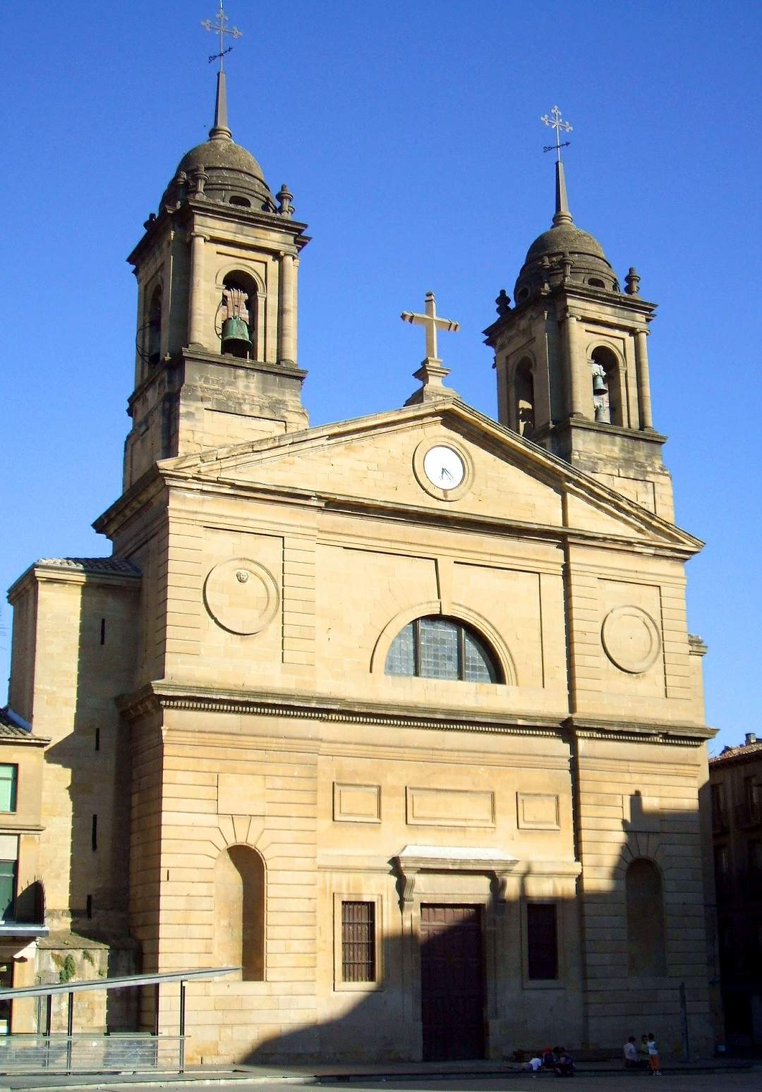 iglesia de San Juan Bautista, Estella